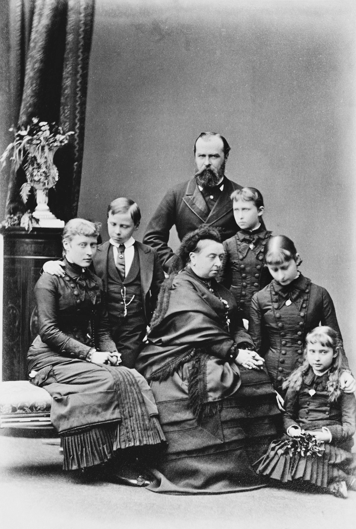 The Hessian family with Queen Victoria. (l-r): Princess Victoria, Hereditary Grand Duke Ernest Louis, Grand Duke Louis IV, Queen Victoria, seated, hands on her lap, Princess Irene, Princess Elizabeth and Princess Alix. The photo was taken shortly after death of their mother in December 1878.